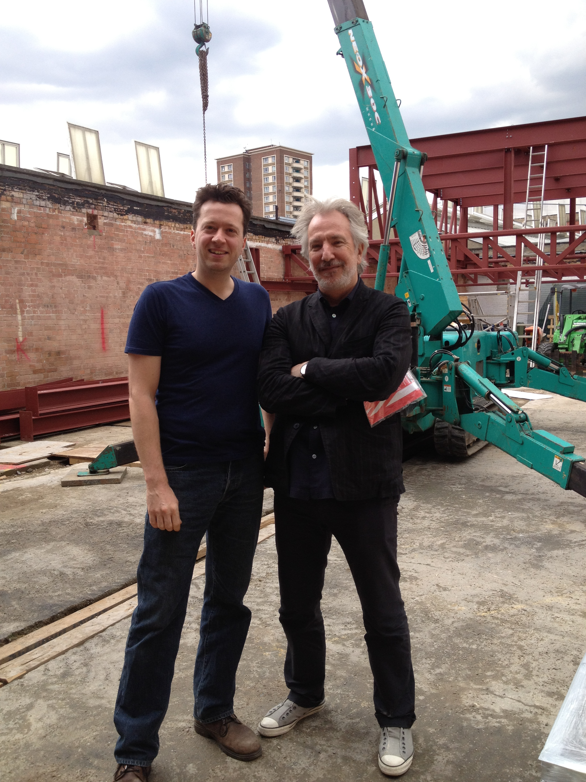 UK theatre director Jez Bond with the late Alan Rickman on the Park Theatre construction site in 2012